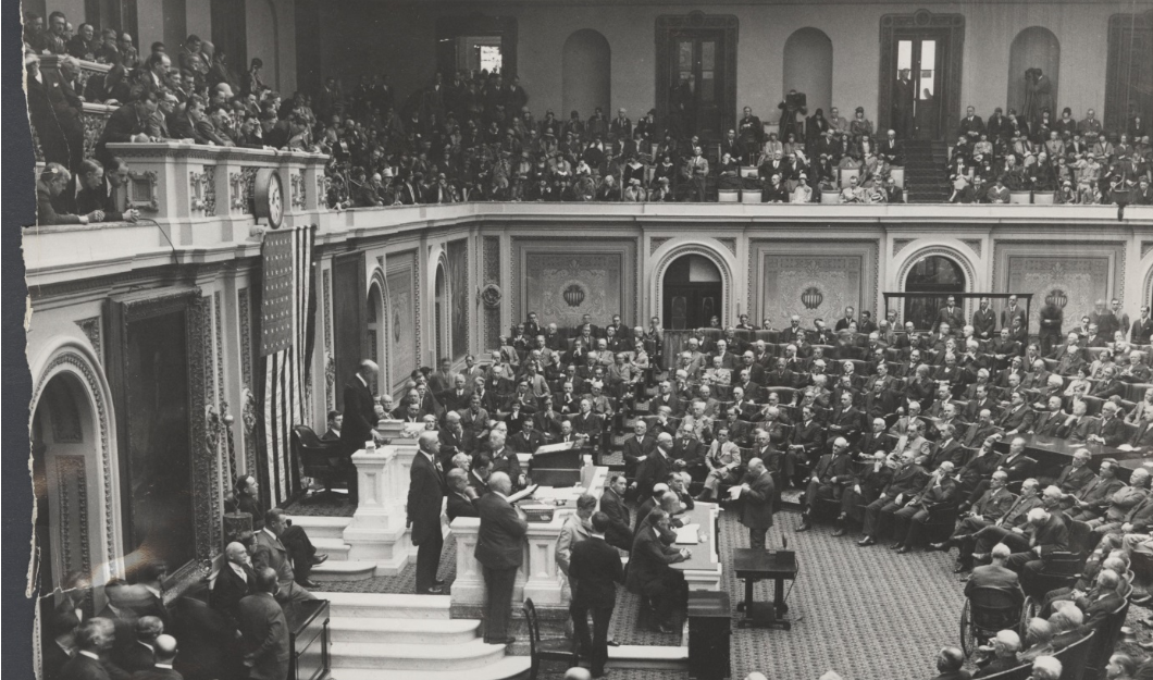 A slightly blurry Speaker Nicholas Longworth is shown addressing the House after his re-election as Speaker in 1927. The galleries above the Floor were packed, with reporters perched over the rostrum and spectators filling every seat in the public galleries. In his speech, Longworth welcomed rebellious Progressives back into the fold of the Republican Party, and declared that he would rather lead the House “than hold any other office in the gift of the American people.”